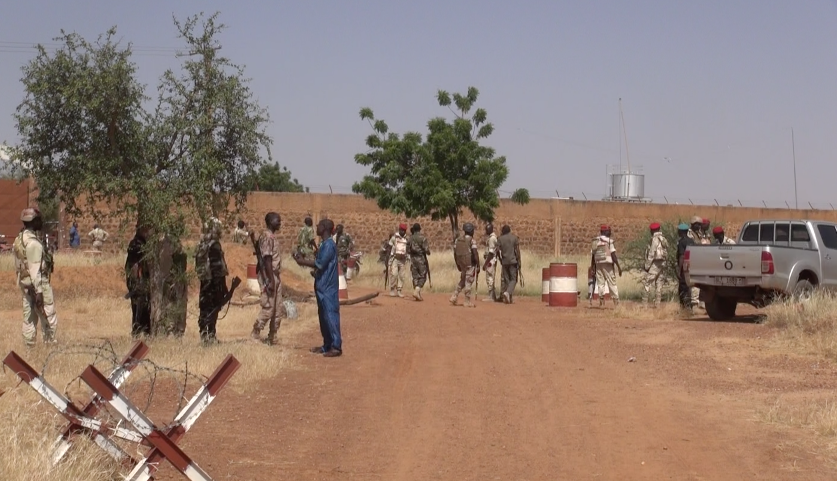 The prison of Koutoukalé, Niger, after a terrorist attack, 17 October 2016.